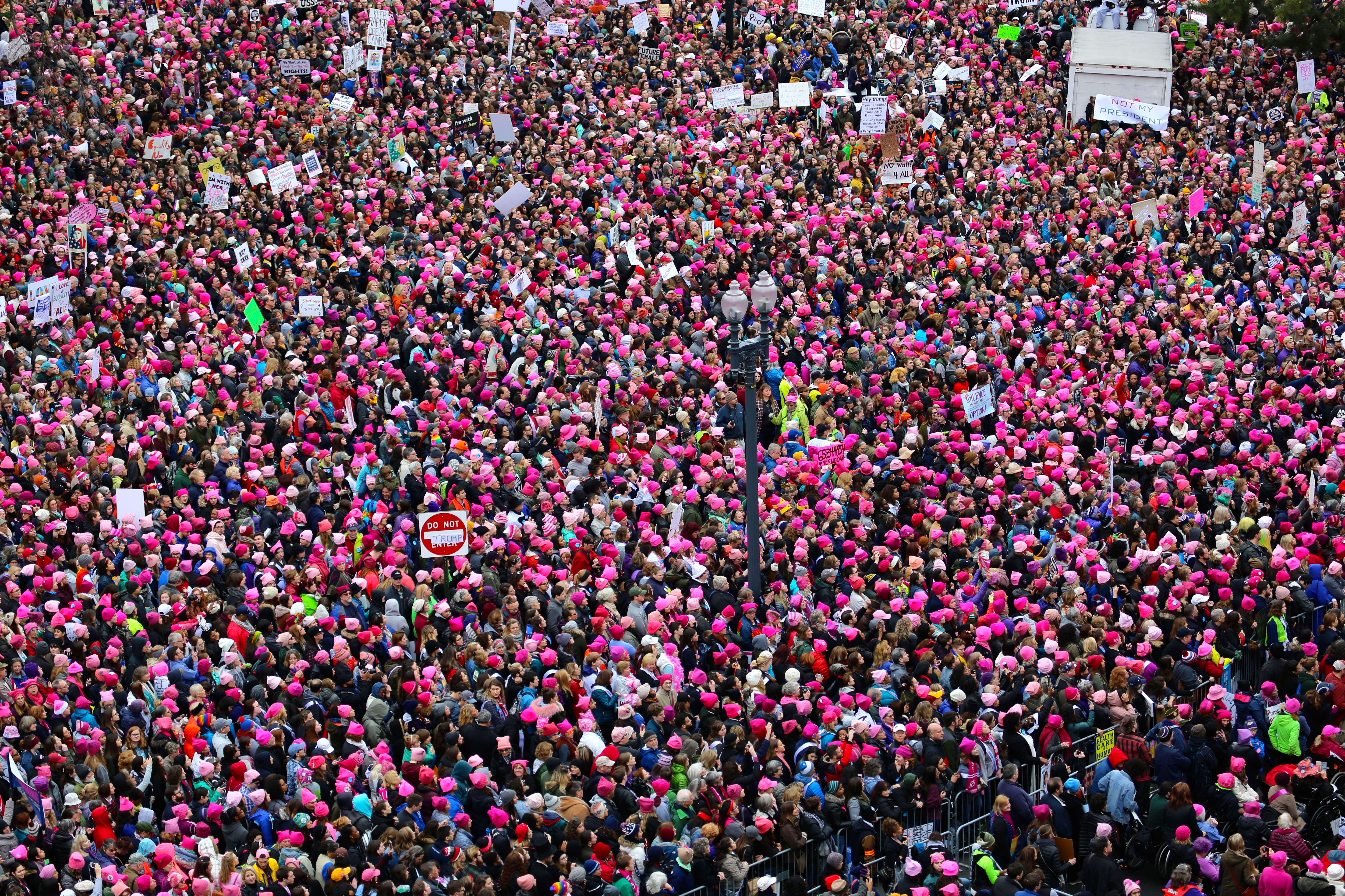 View of the Women's March on Washington from the roof of the Voice of America building - January 21, 2017